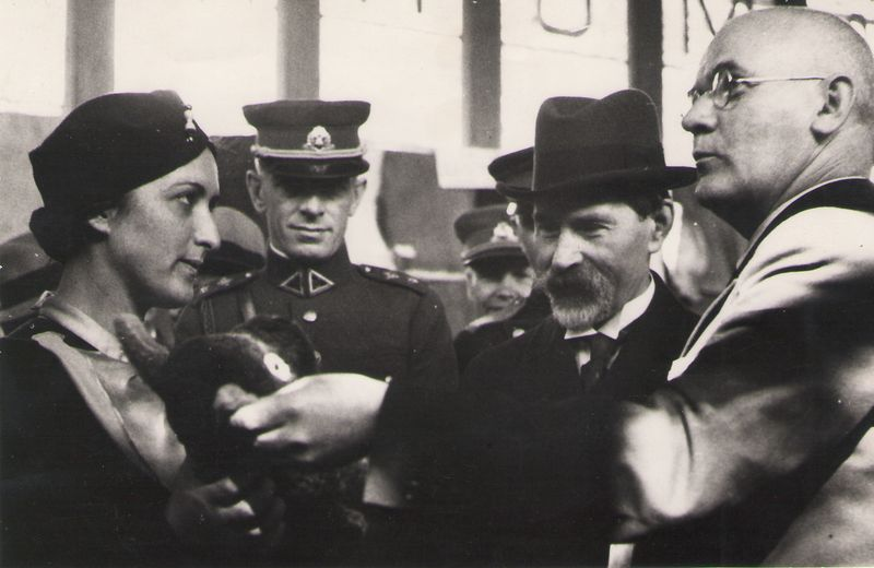 Stase Vasiliauskaitė-Samulevičienė and President Antanas Smetona.